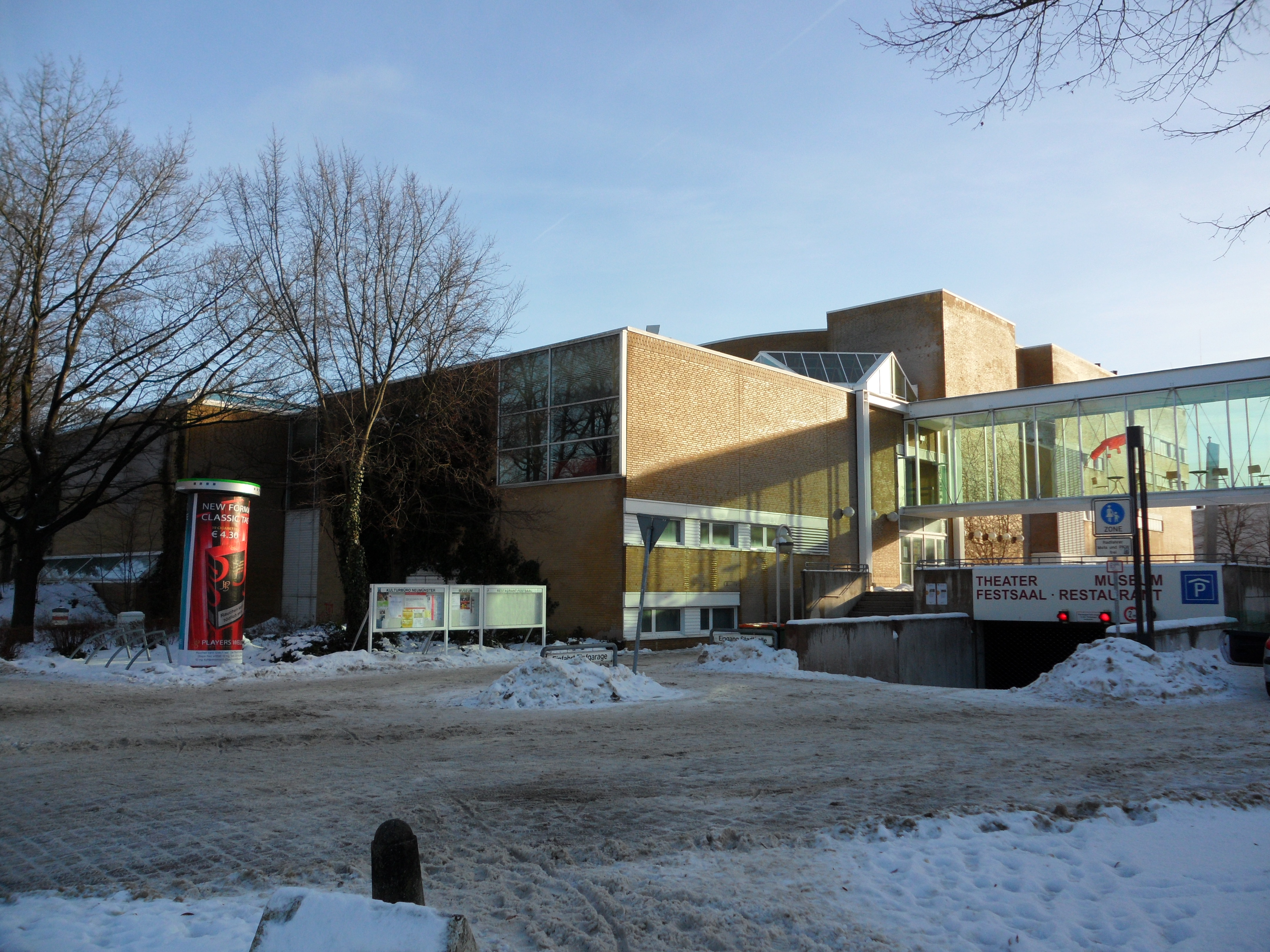 The 'Stadthalle' of Neumünster from Schleusberg